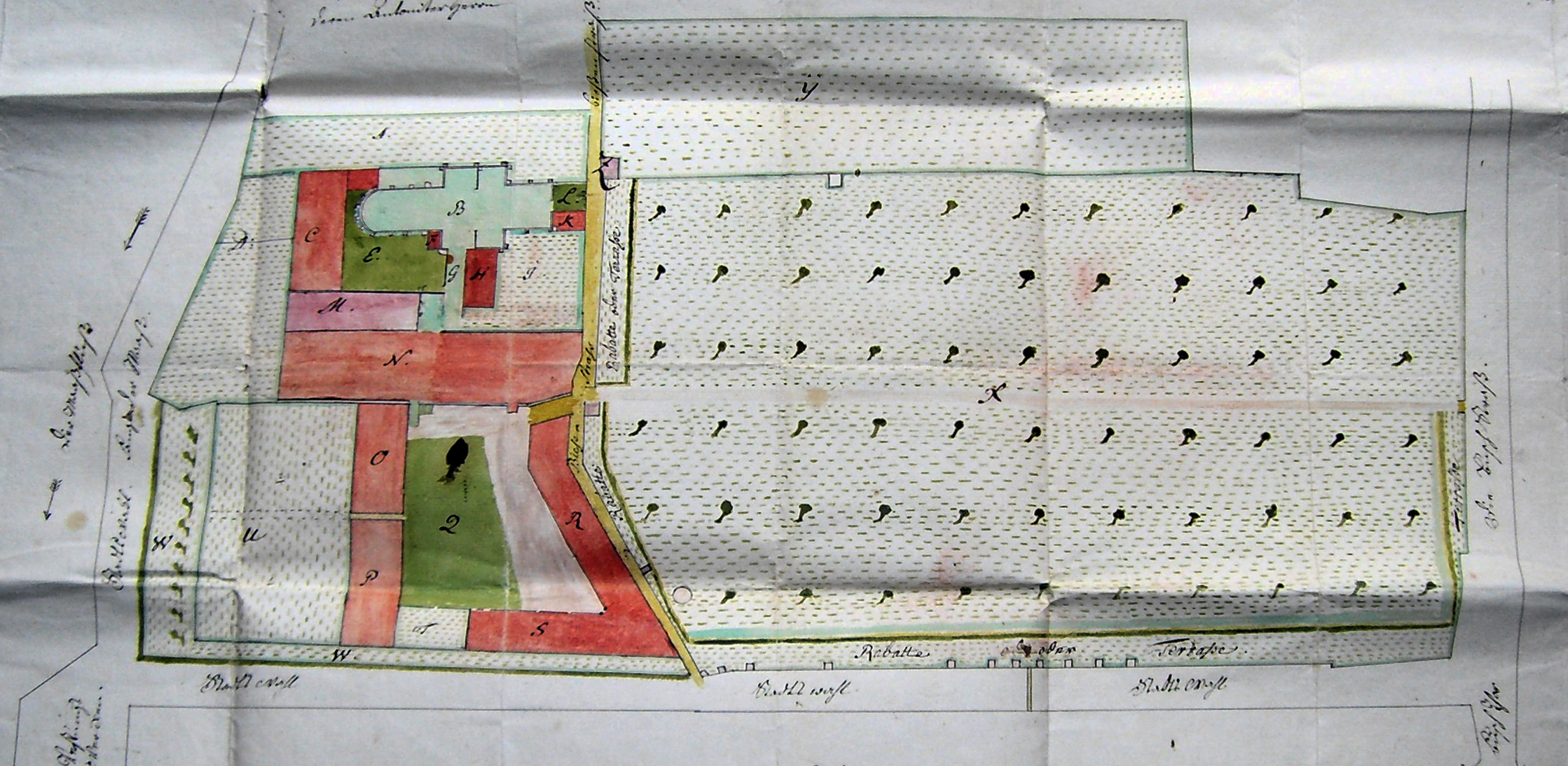 Maastricht, the Netherlands. Map of the possessions of the Kinghts of the German Order in Maastricht (Nieuwe Biesen monastery). Map by Joannes Schütgens, 1783.